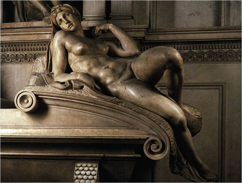 eos